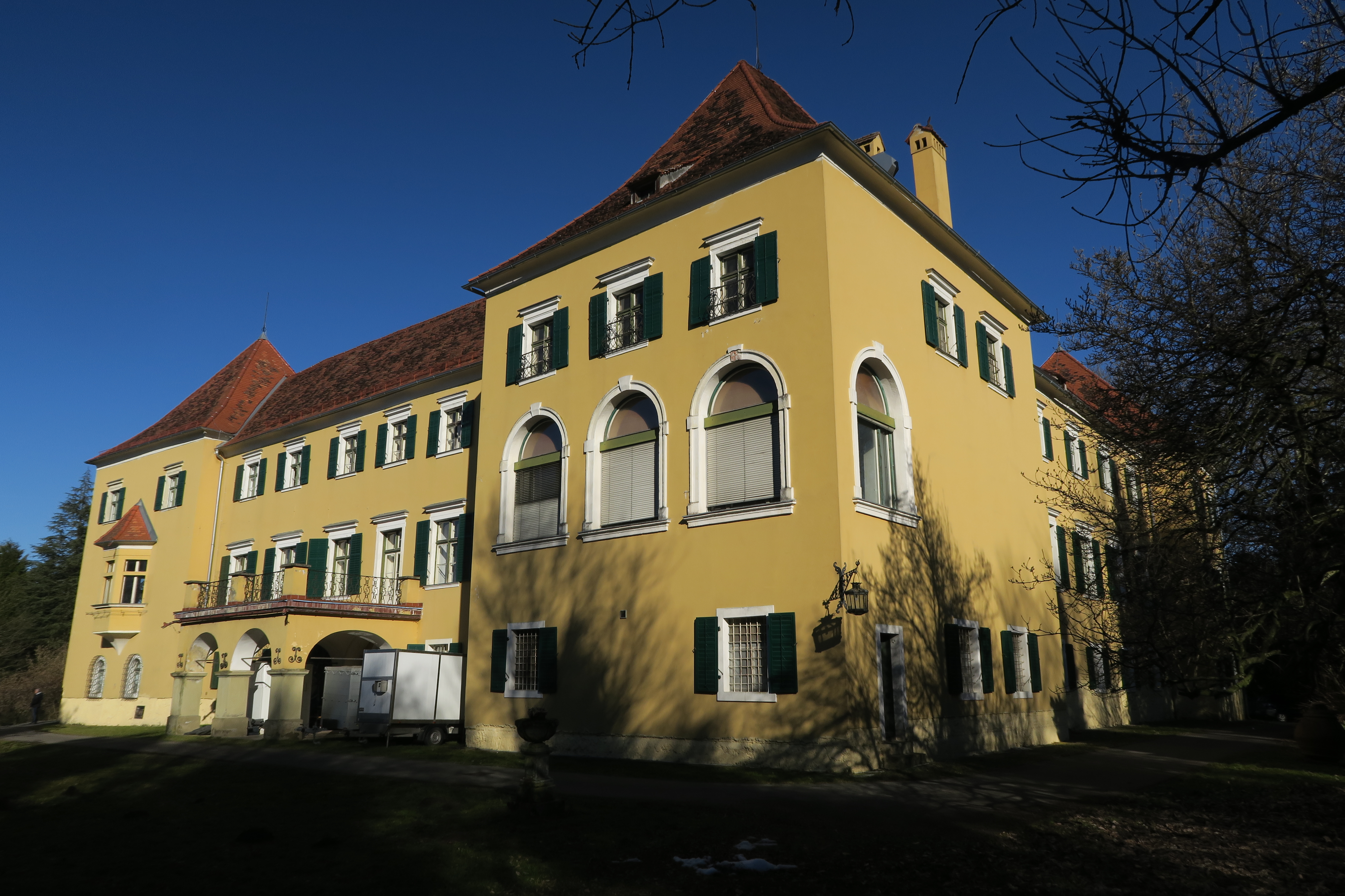 Styria Red Cross